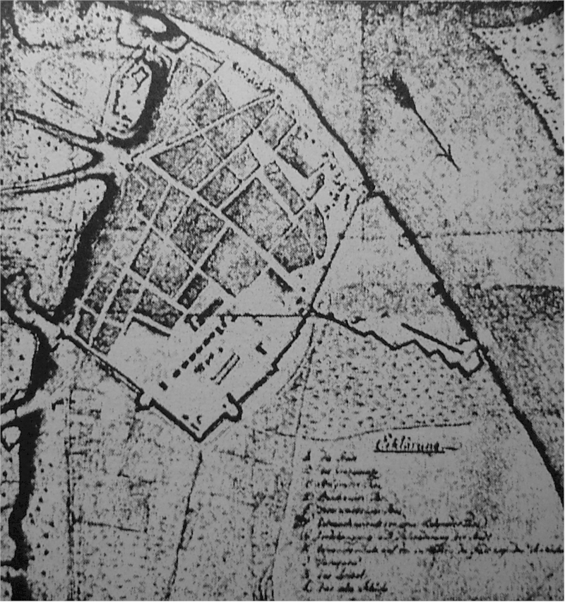 Plan of Zemun, 1791